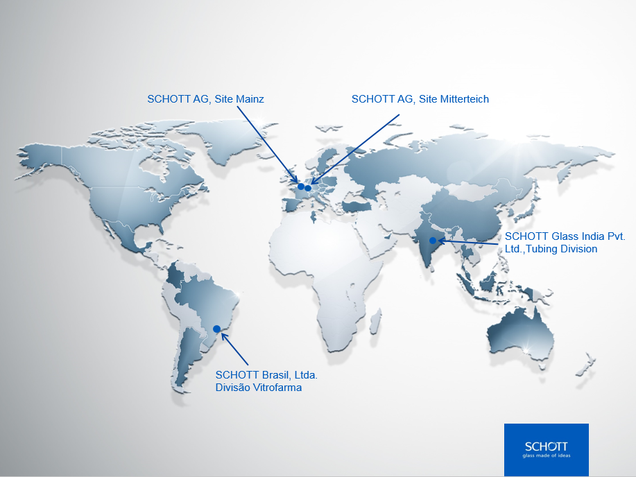 SCHOTT Tubing sites